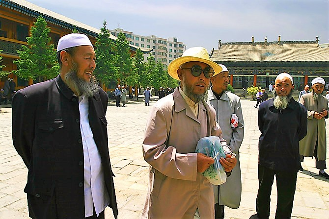 After prayers at Dongguan mosque, Xining, Qinghai, China